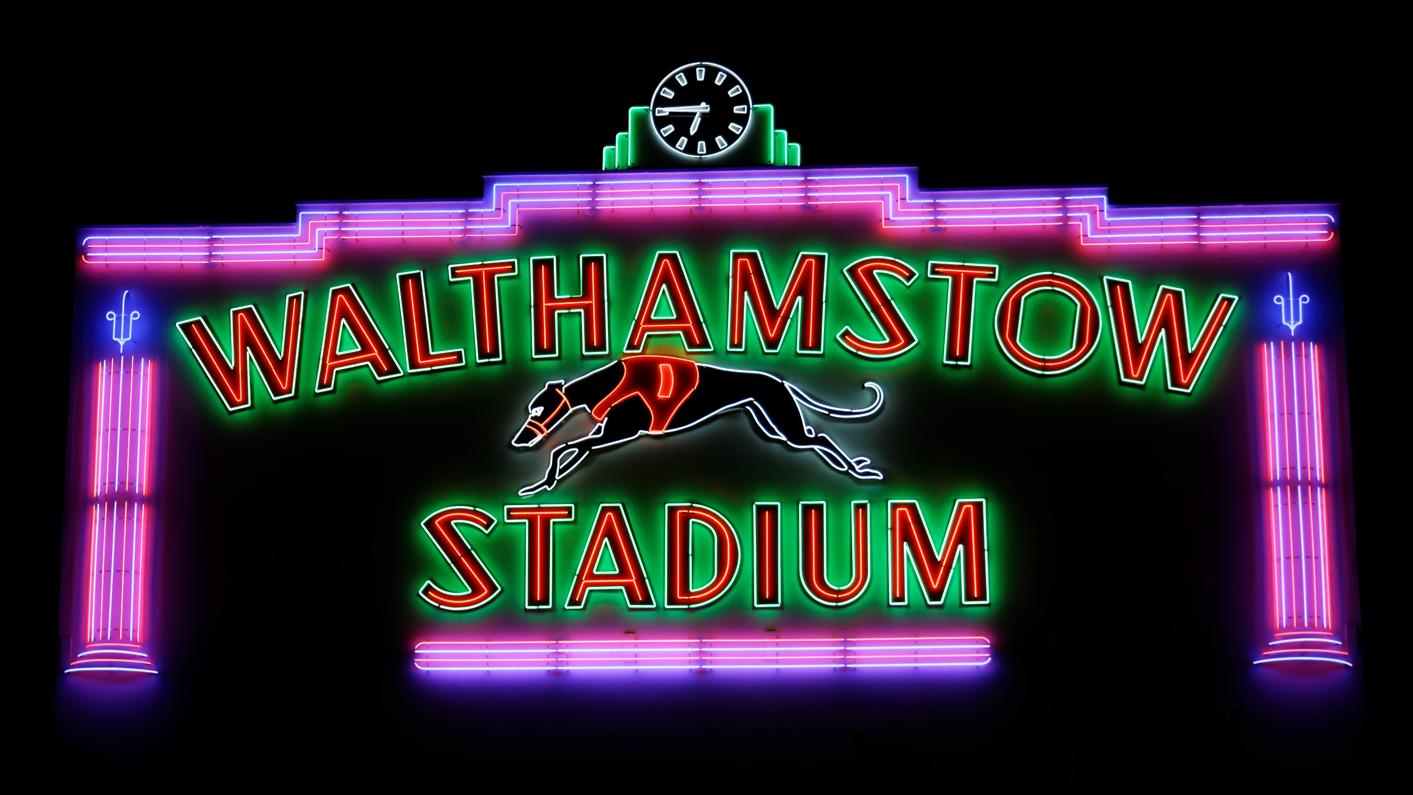 The February 2016 newly refurbished neon light frontage of the old Walthamstow Greyhound Stadium in the Borough of Waltham Forest, London. England.The greyhound stadium was closed in 2008, and has been redeveloped as 'Stadium Place,' and will include residential housing, markets and malls. The front range of the stadium, which includes the neon lighting, is Grade II listed. The photograph is taken from Walthamstow Avenue across the A12 Chingford Mount Road.Camera: Canon EOS 6D with Canon EF 24-105mm F4L IS USM lens.Software: large RAW file lens-corrected, optimized and downsized with DxO OpticsPro 10 Elite, Viewpoint 2.